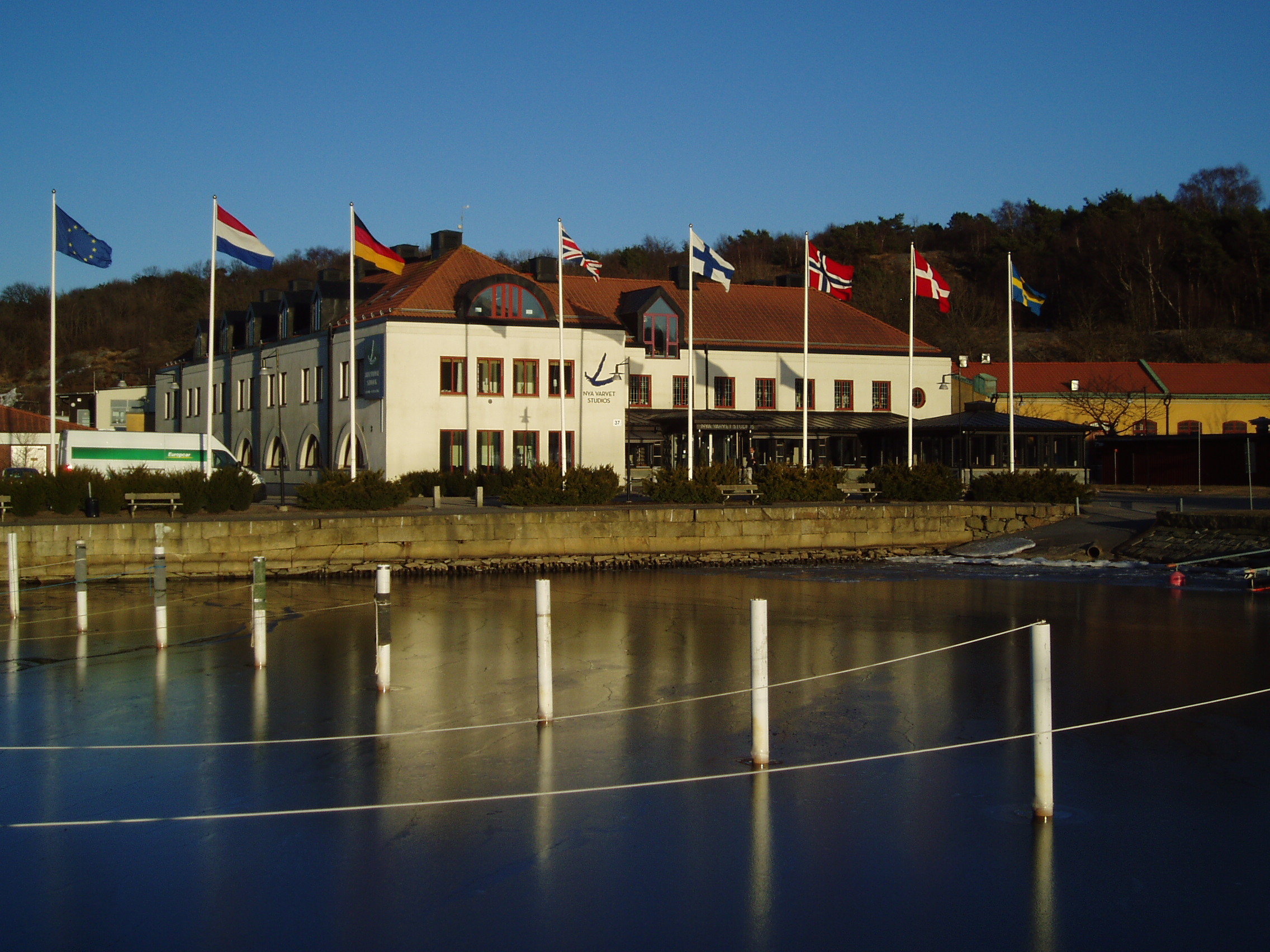 Hotel Nya Varvet Studios Gothenburg